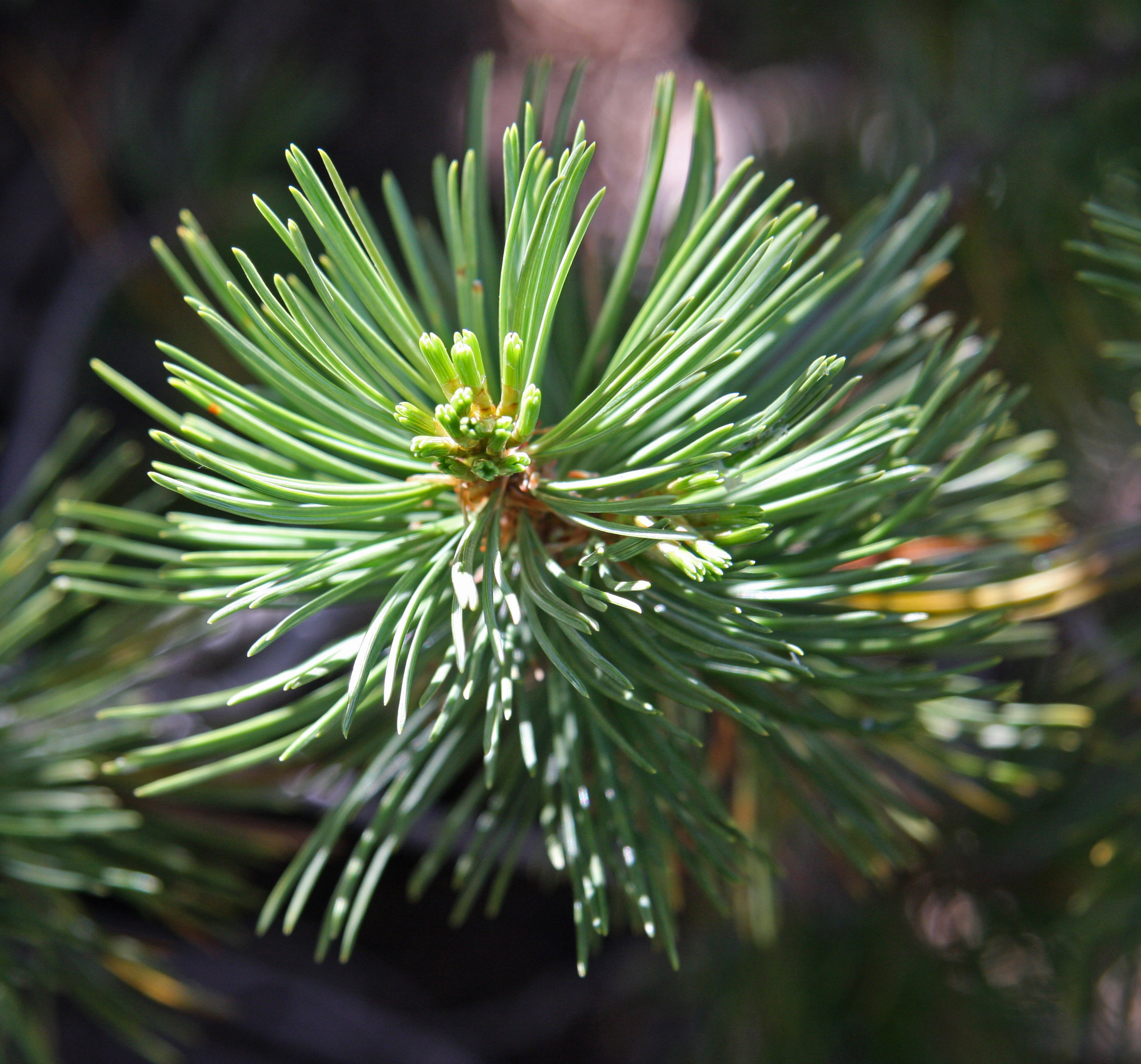 Whitebark pine (Pinus albicaulis), new and older 5-needle clusters. At 10,400ft above N end of Steelhead Lake, 20-Lakes Basin, Hoover Wilderness, California.